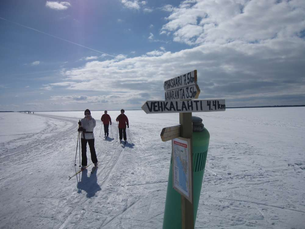 Lake Pyhäselkä, ice skiing route near Joensuu